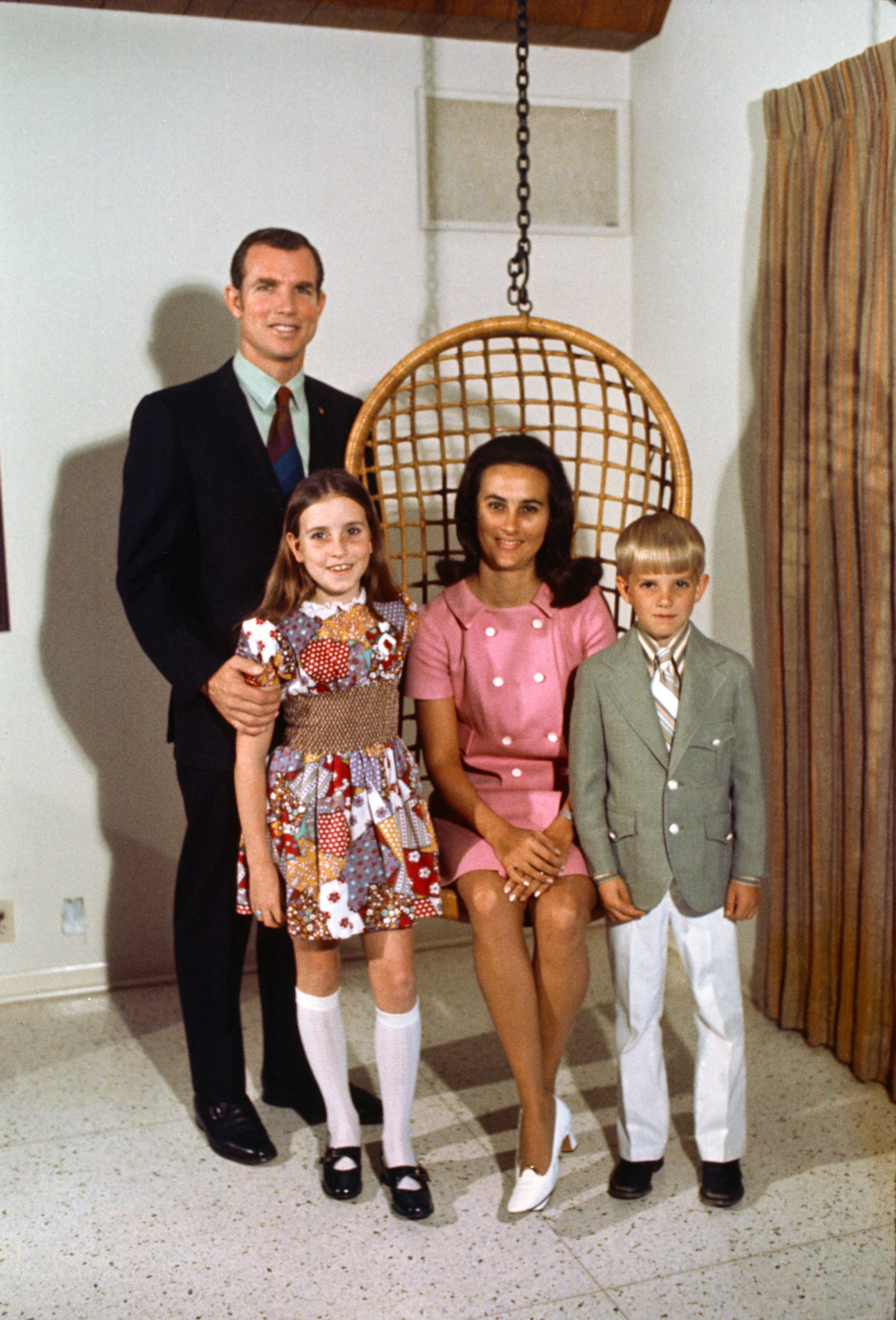 Astronaut David Scott and family, April 1971